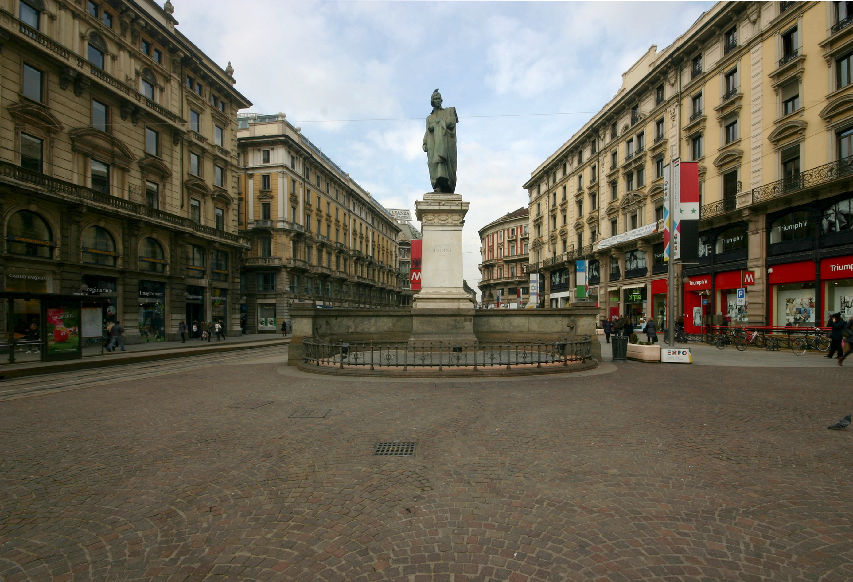 Piazza Cordusio - Milan